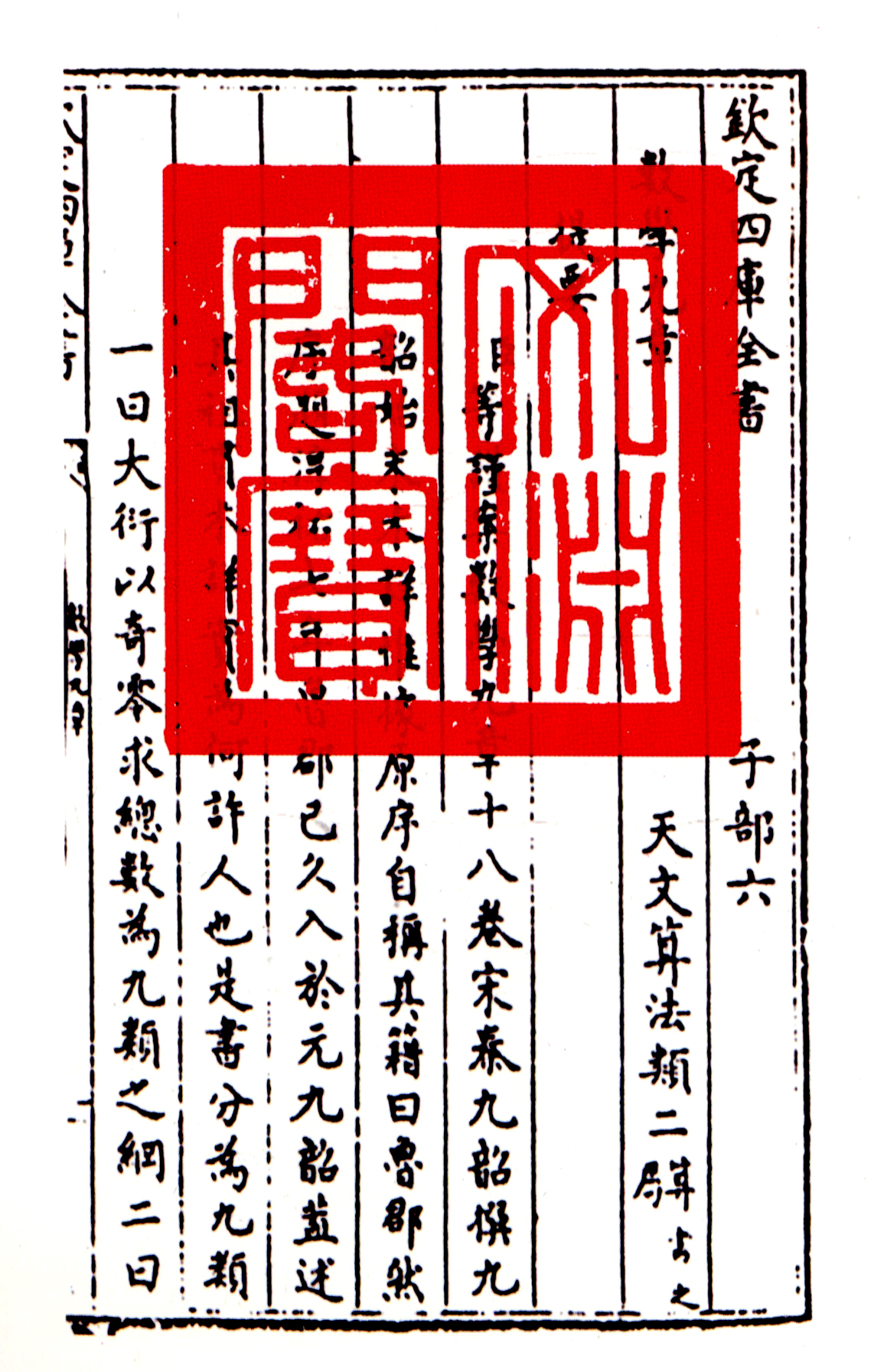 A page of Shu Shu Jiu Zhang 四库全书数书九章